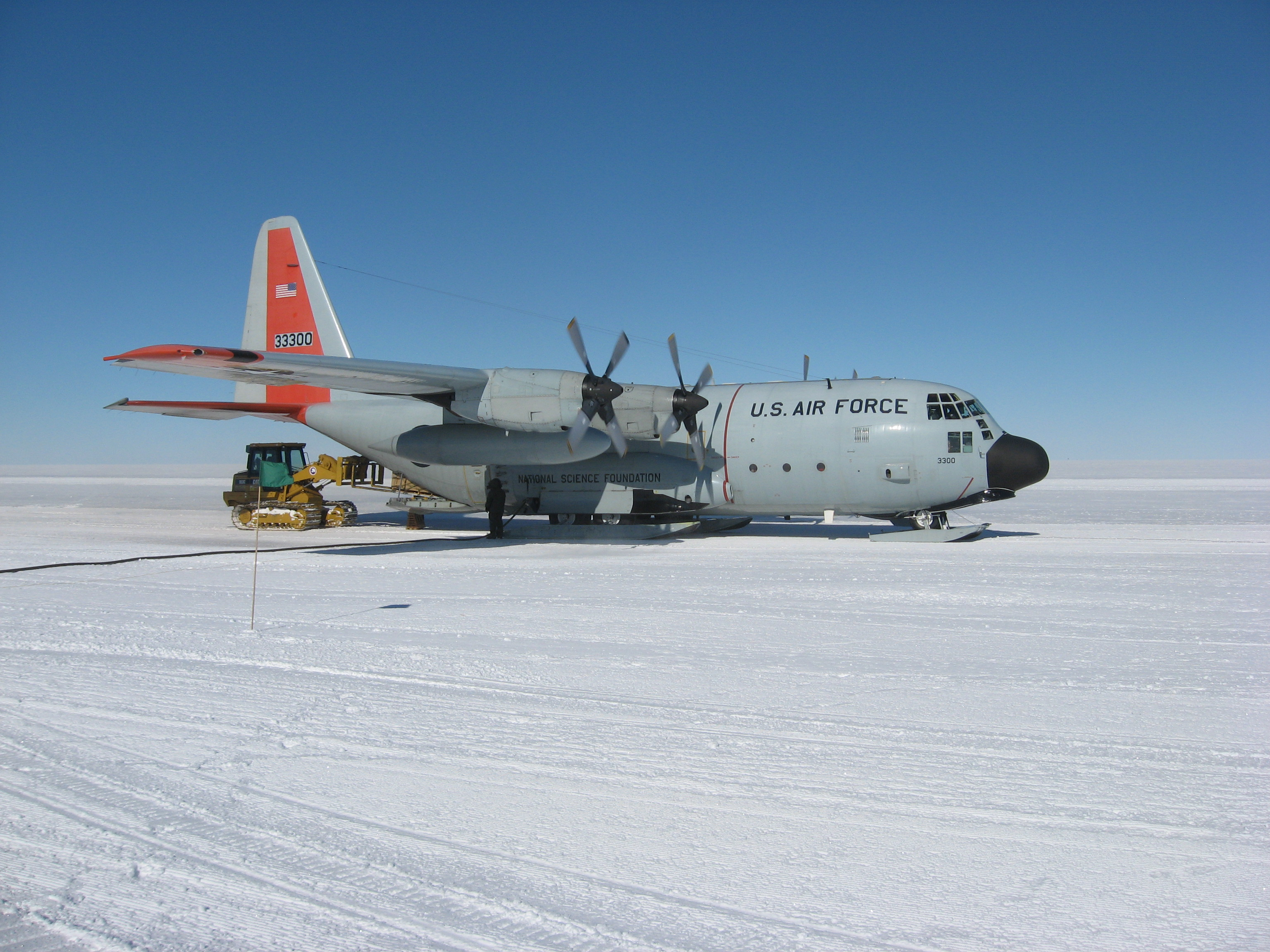 New York Air National Guard LC-130H being unloaded by a Caterpillar loader at the WAIS Divide field camp.